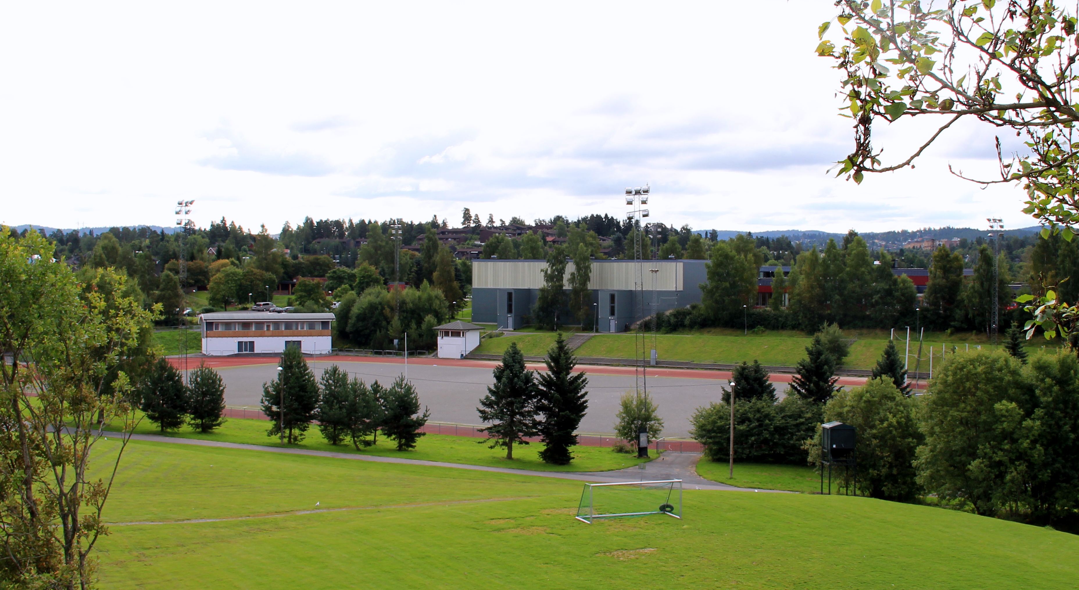 Stovner stadion, Track and field stadium at Stovner, Oslo